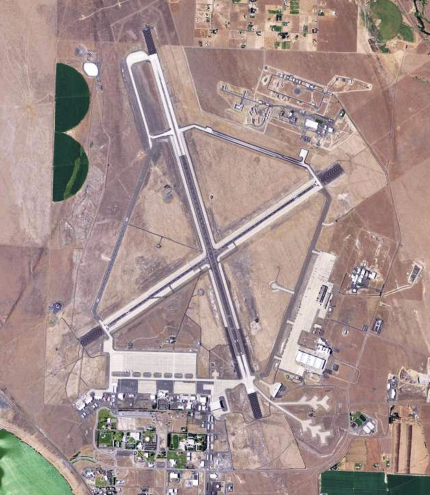 USGS digital orthophoto of Larson Air Force Base in the U.S. state of Washington